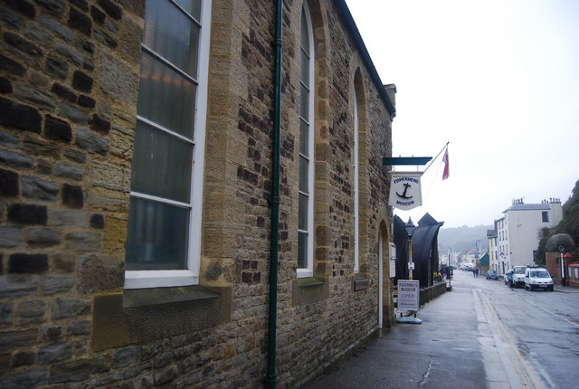 Fishermen's Museum, Rock-A-Nore Housed in a church, built in 1852.